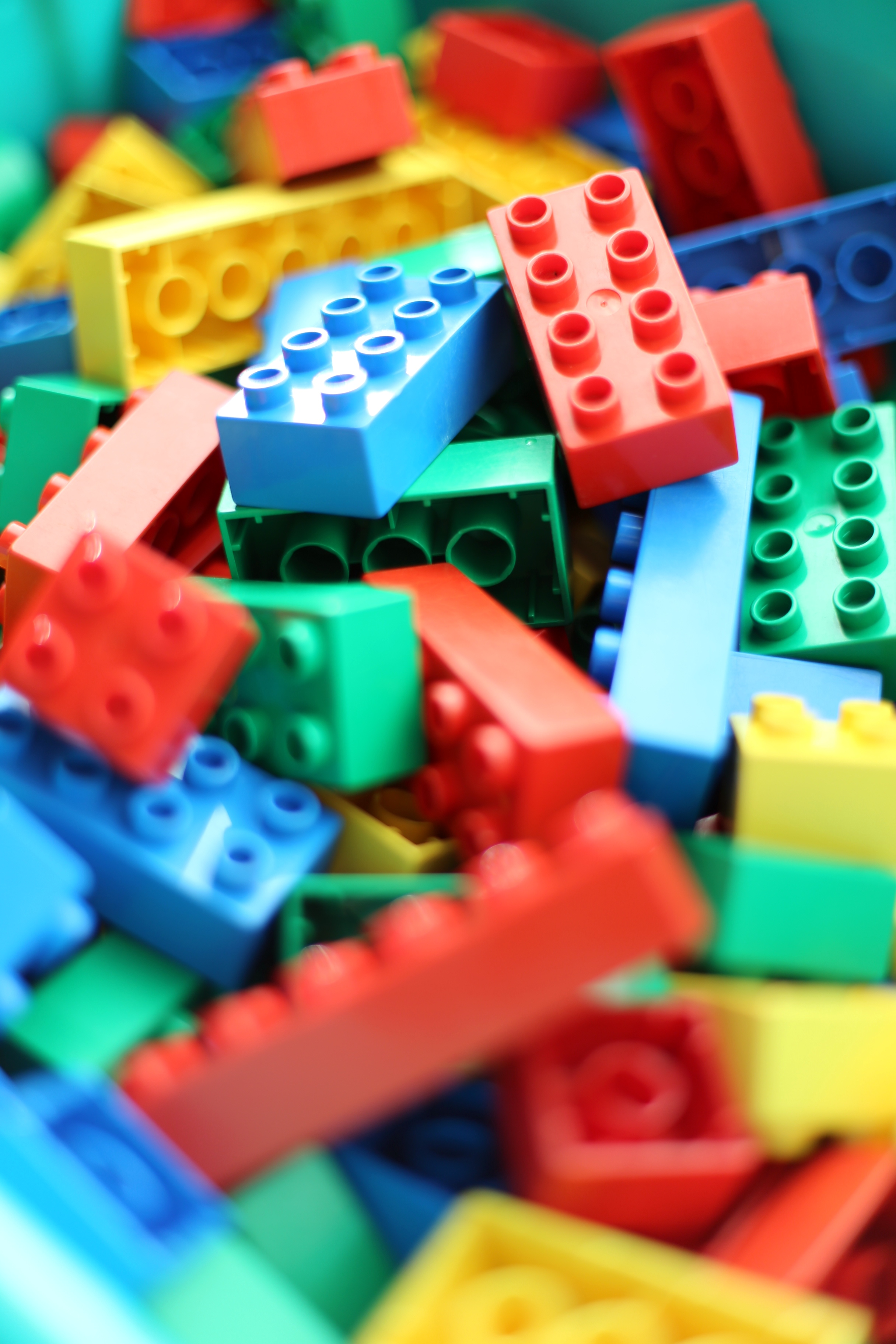 Used Lego Duplo bricks.